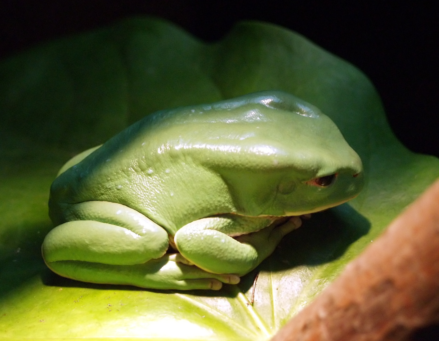 Phyllomedusa boliviana, Zoo Cologne, Germany